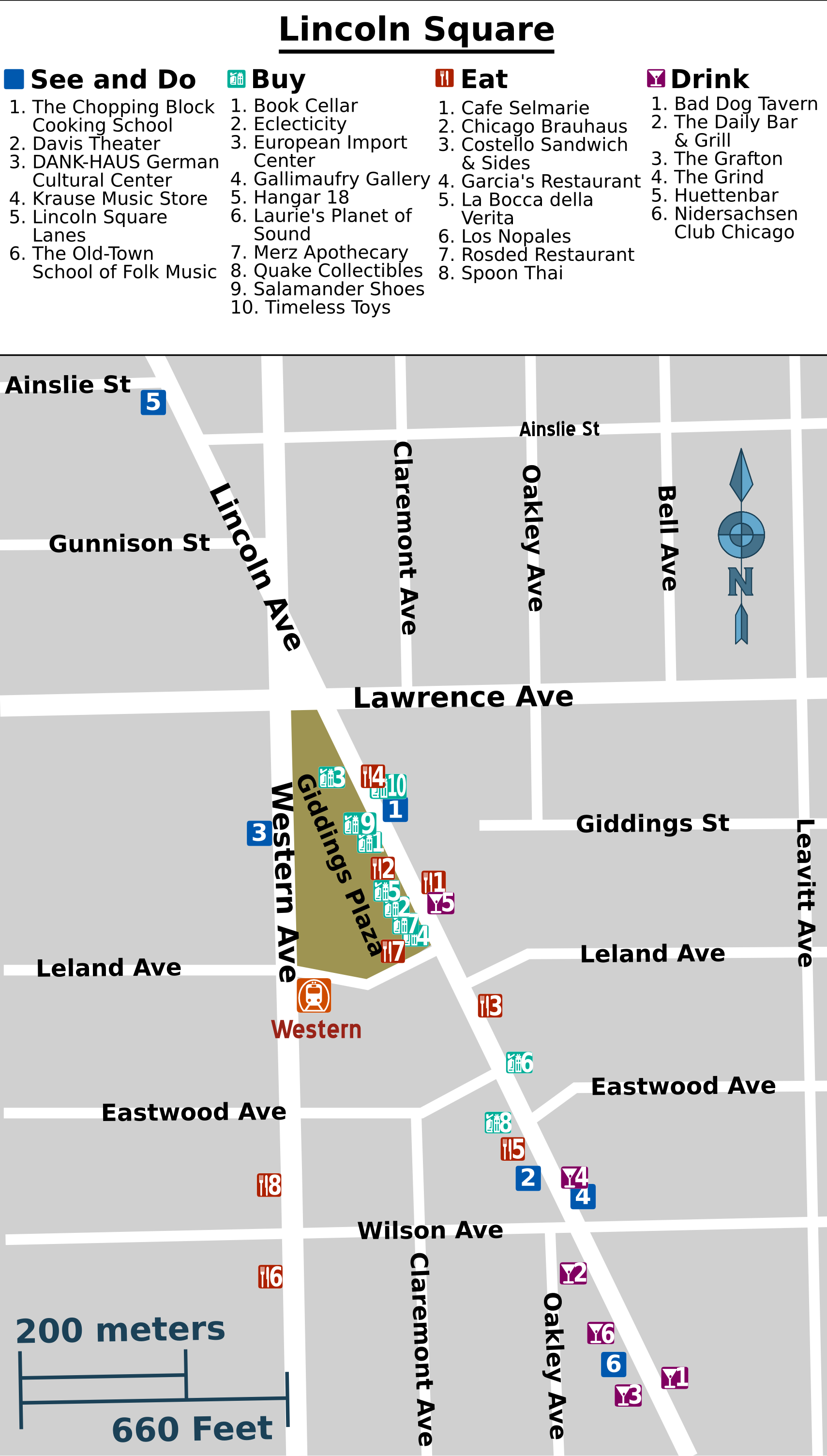 Blowup of Chicago's Lincoln Square neighborhood. street map, Chicago.